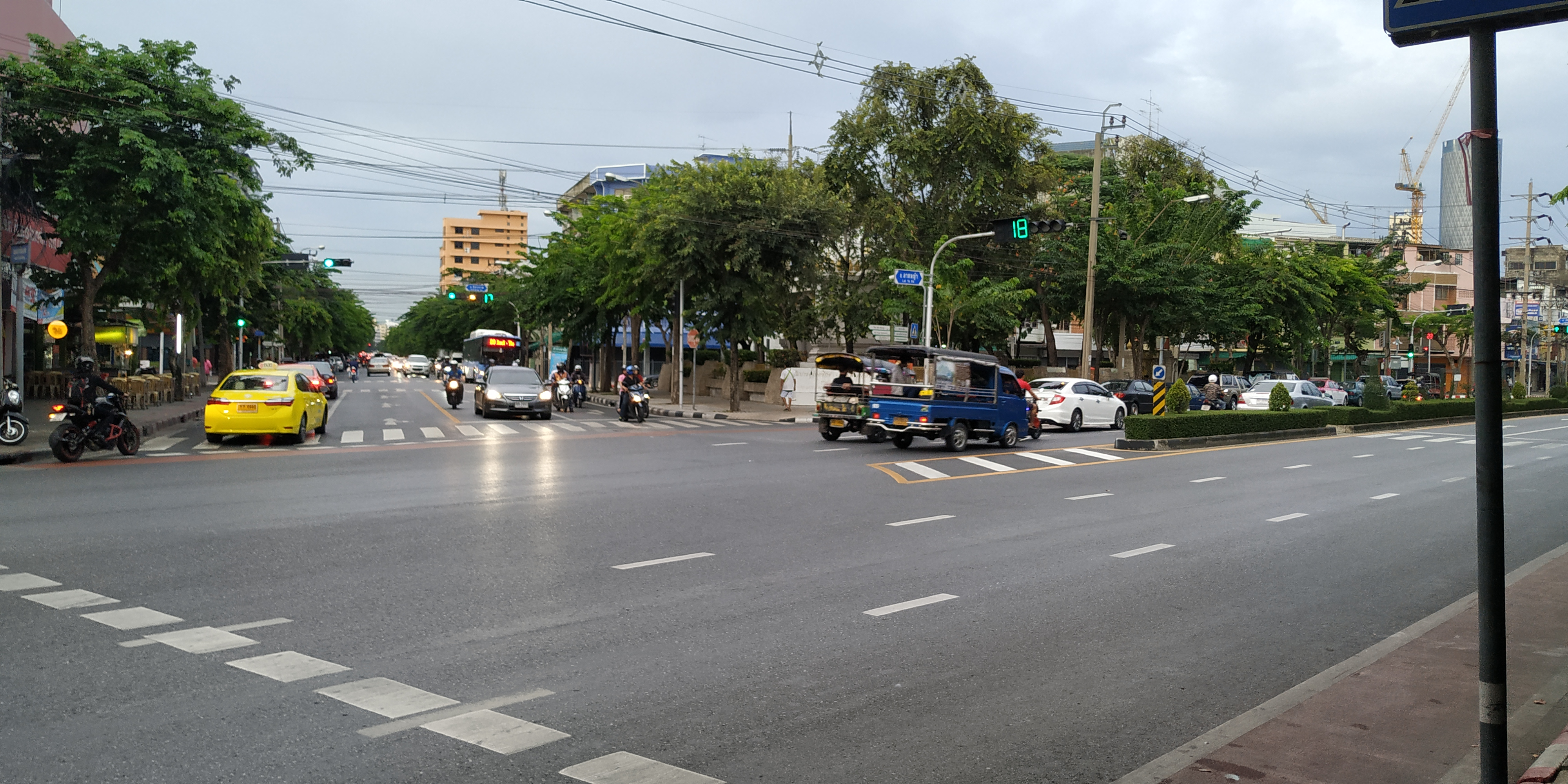 Lat Yaa intersection (From Lat Yaa road toward Tha-Dindang road)